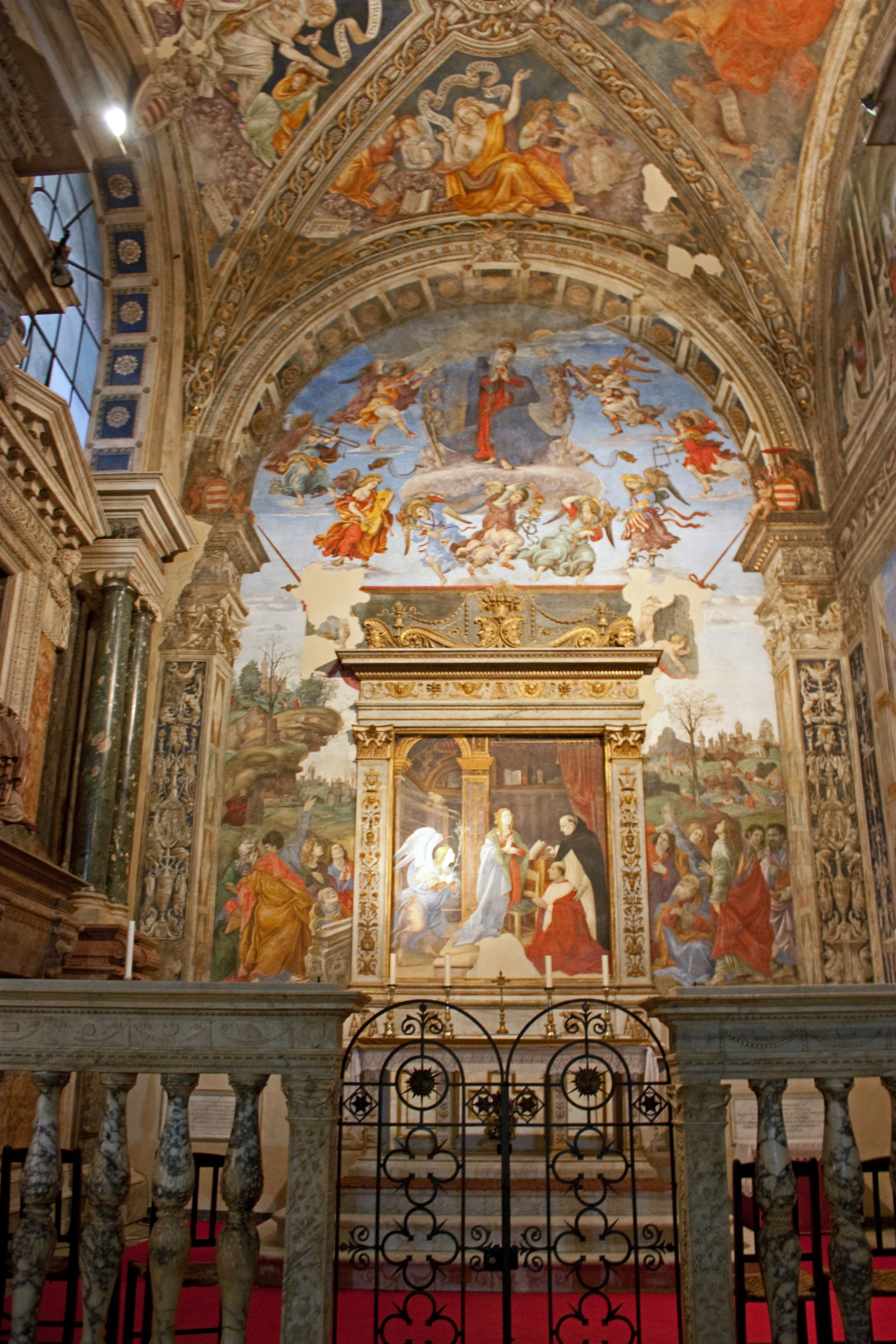 Carafa chapel, Santa Maria sopra Minerva in Rome, Italy.